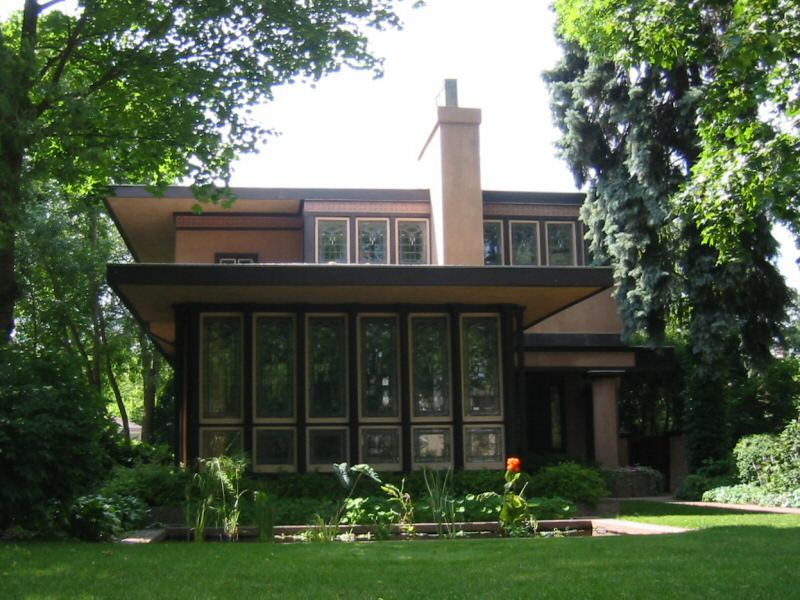 The William Gray Purcell House in Minneapolis, Minnesota. An example of Prairie School architecture.